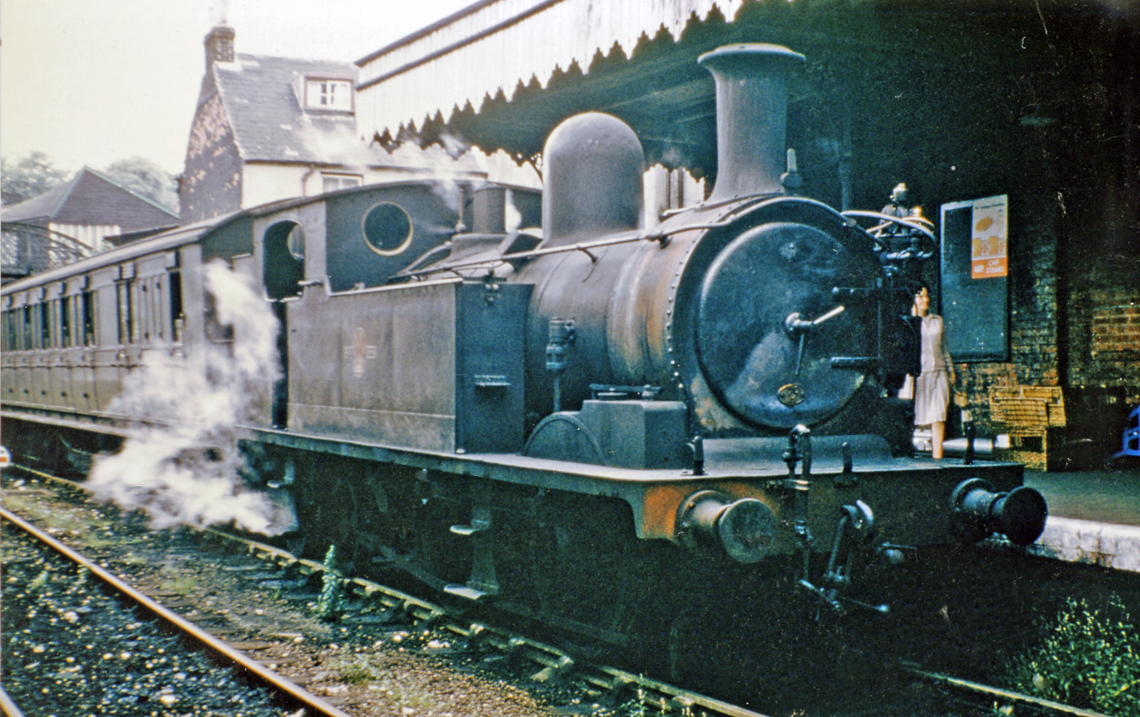 Train from Ryde Pier Head at Cowes. View westward from near the barrier, towards Newport etc.: terminus of ex-Isle of Wight Railway branch from Newport, closed 21/2/66 (goods 16/5/66). The train is headed by ex-LSW Adams O2 class 0-4-4T No. W24 'Calbourne' (built 12/1891 as No. 209, shipped to IoW 4/25, withdrawn 3/67).